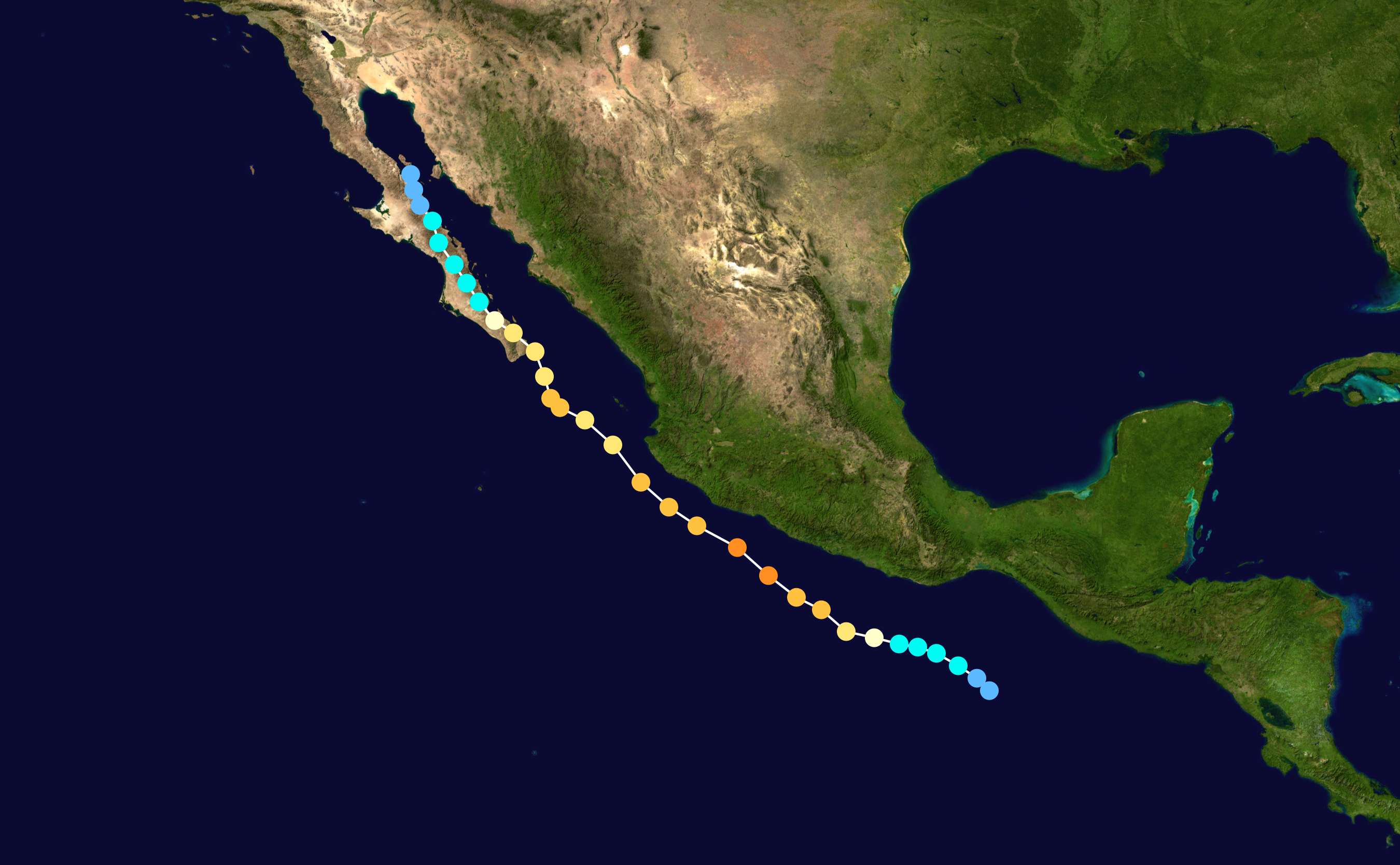 Track map of Hurricane John of the 2006 Pacific hurricane season. The points show the location of the storm at 6-hour intervals. The colour represents the storm's maximum sustained wind speeds as classified in the Saffir–Simpson scale (see below), and the shape of the data points represent the nature of the storm, according to the legend below. Saffir–Simpson scale Tropical depression≤38 mph≤62 km/h Category 3111–129 mph178–208 km/h Tropical storm39–73 mph63–118 km/h Category 4130–156 mph209–251 km/h Category 174–95 mph119–153 km/h Category 5≥157 mph≥252 km/h Category 296–110 mph154–177 km/h Unknown Storm type Tropical cyclone Subtropical cyclone Extratropical cyclone / Remnant low / Tropical disturbance / Monsoon depression